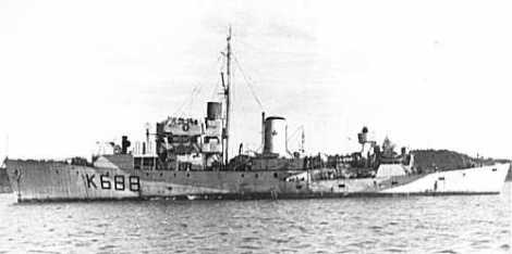 HMCS Merritonia